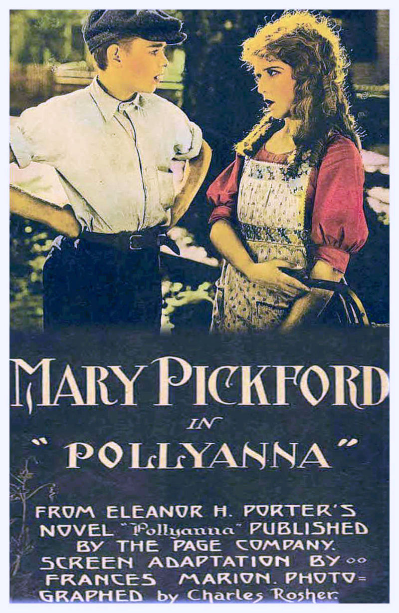 Poster for the 1920 film Pollyanna with Howard Ralston and Mary Pickford.